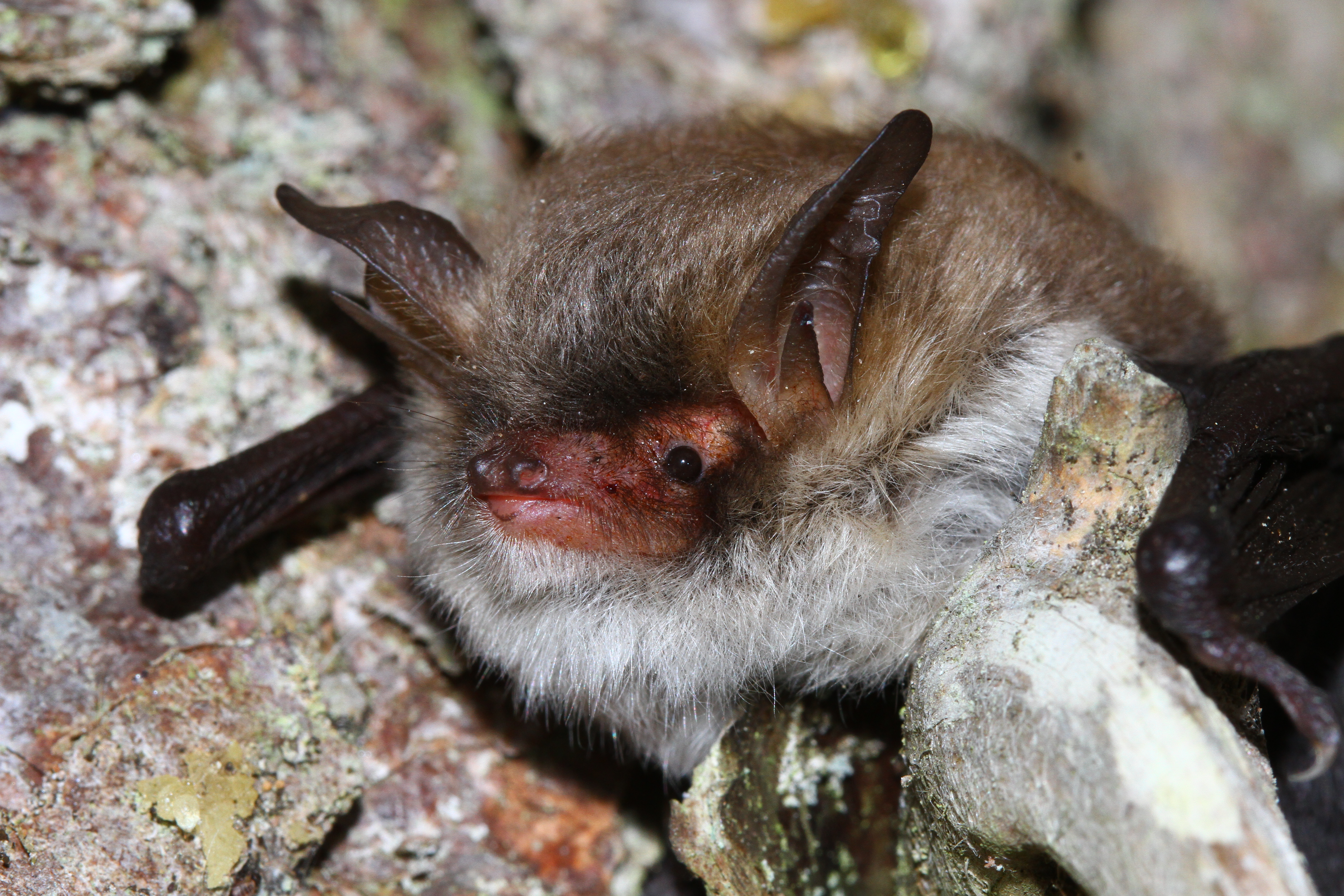 Myotis crypticus pictured on a swarming site from the Jura Mountains in the province of Vaud.